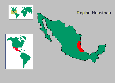 Huasteca region in Mexico